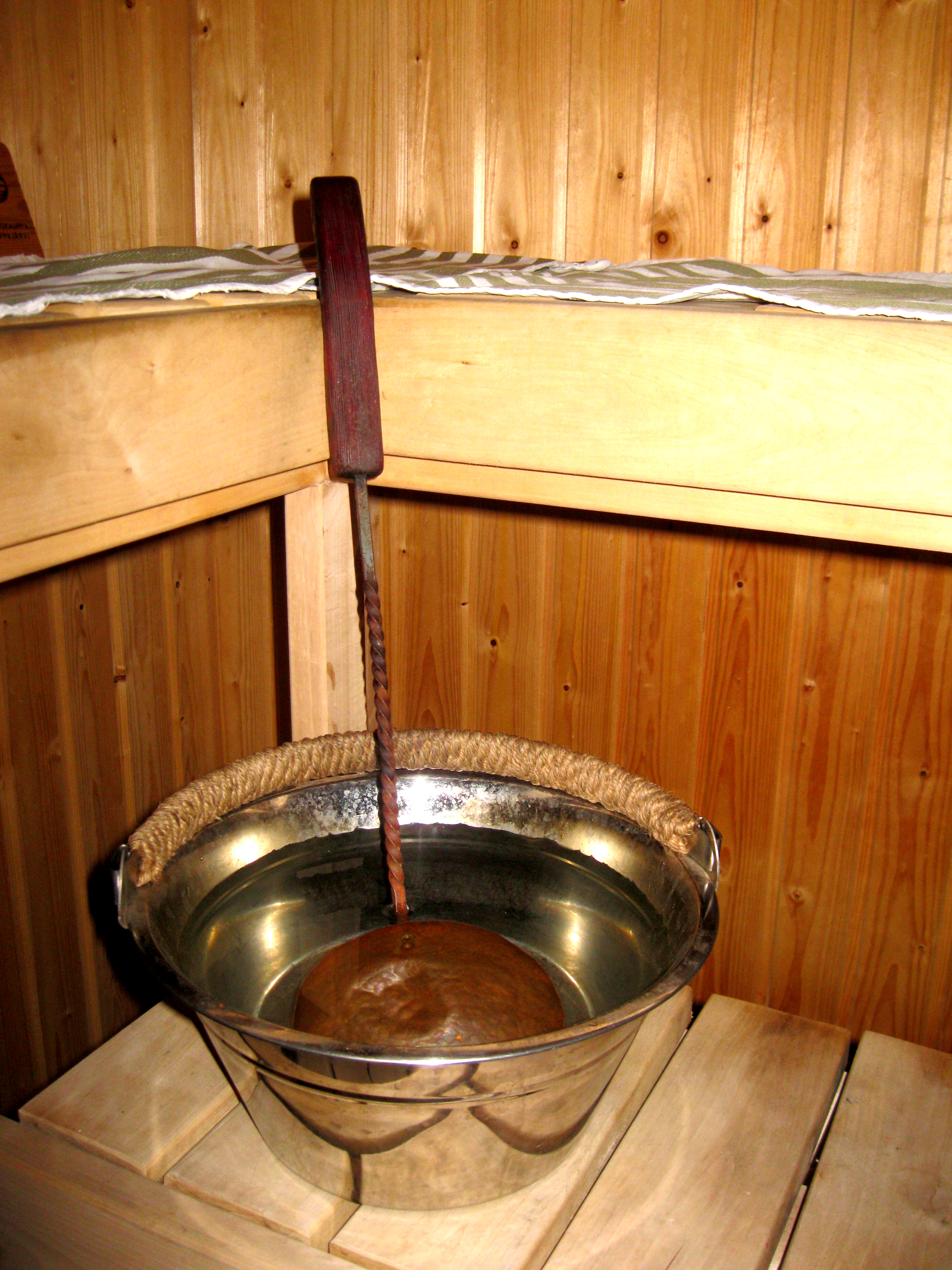 Sauna ladle and bucket